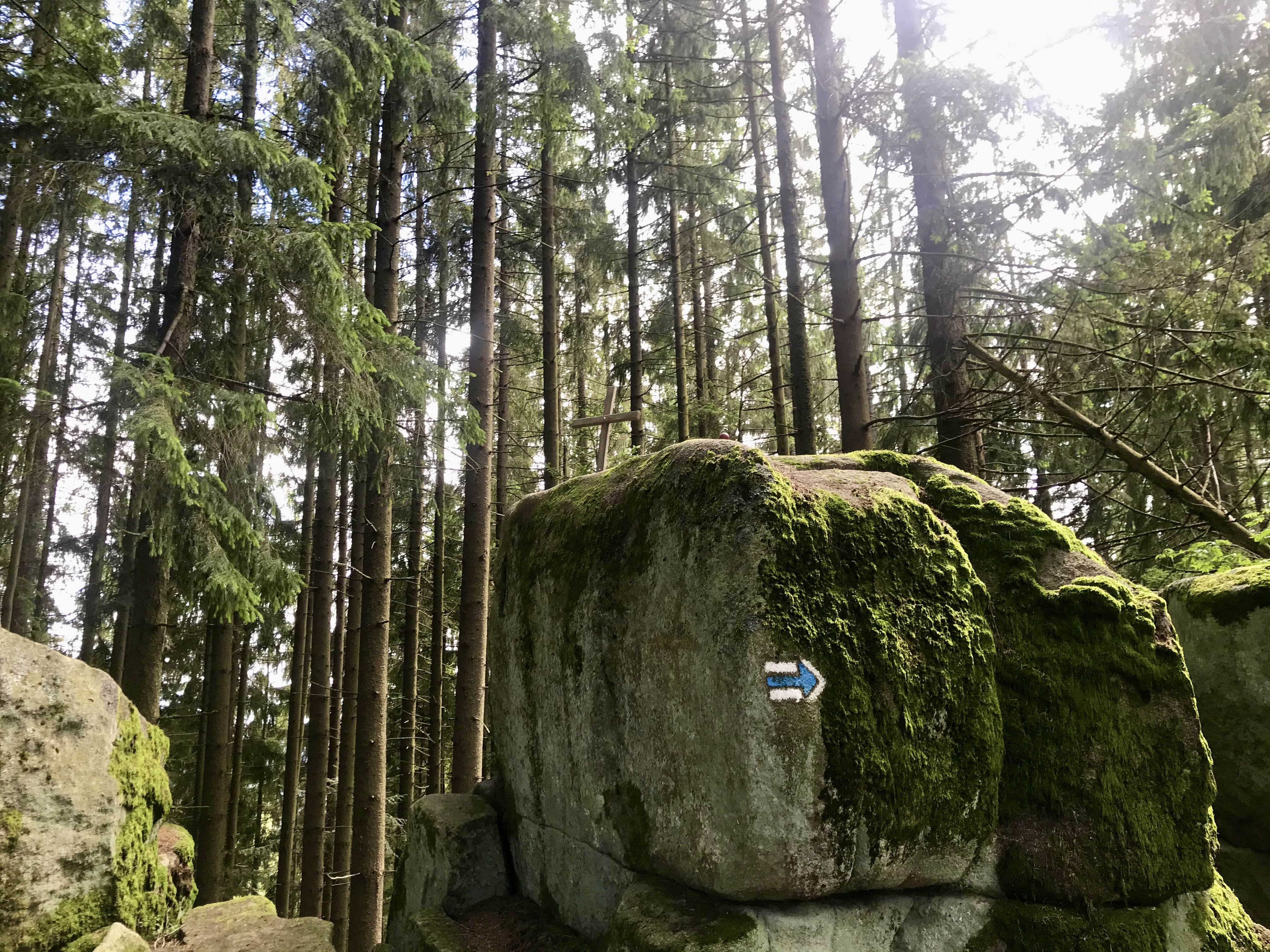 Top of the Kleč mountain (933 meters above sea) – Czech mountain in Šumava National Park